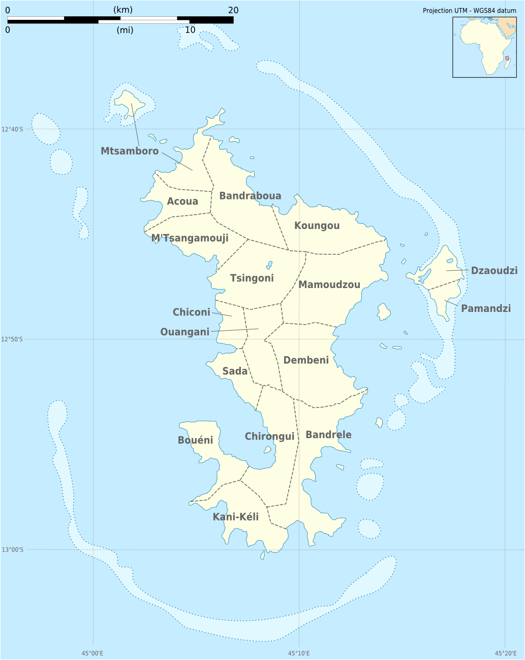 Map of the Communes of Mayotte in French. Use the SVG version for translations and alterations, then update this one.